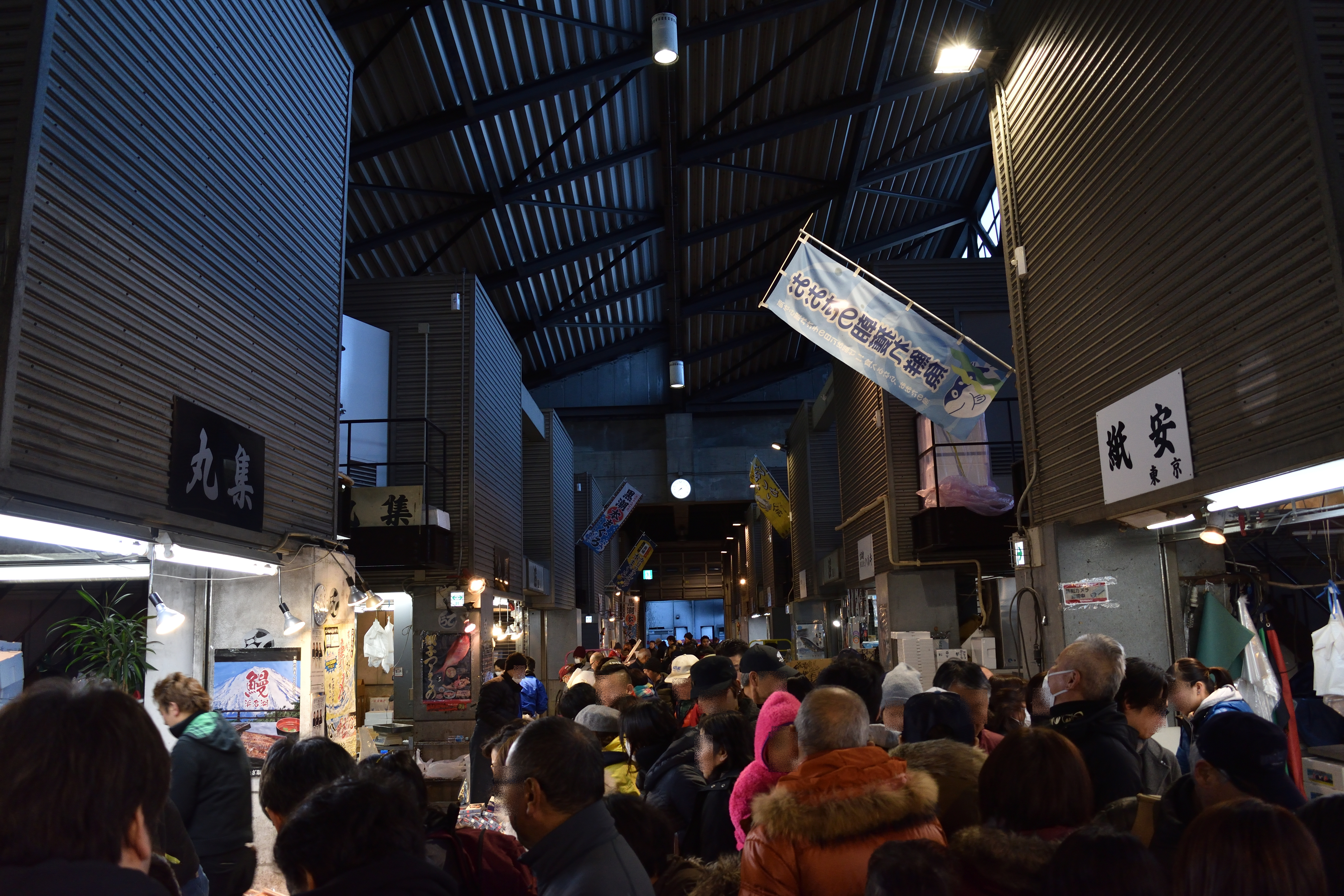 Year-end sales for consumers in the Ōta Wholesale Market in Ōta, Tokyo.